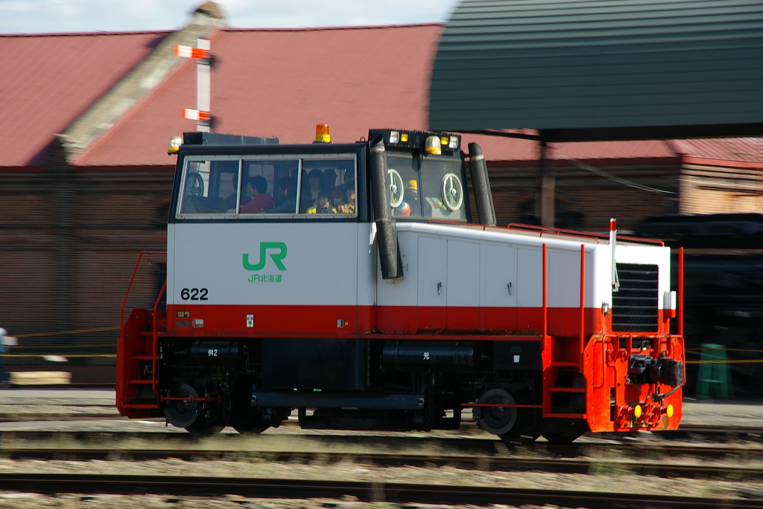 JR Hokkaido HTR-622 in JR Hokkaido Naebo factory.